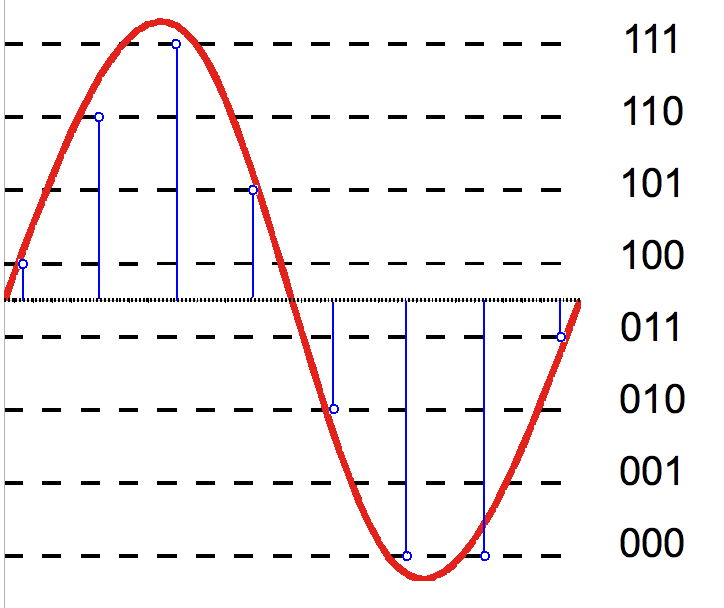 3-bit resolution with eight levels of quantization, compared with an analog sine wave. Adapted from: Hodgson, Jay (2010). Understanding Records, p.56. ISBN 978-1-4411-5607-5. He adapted from Franz, David (2004). Recording and Producing in the Home Studio, p.38-9. Berklee Press.